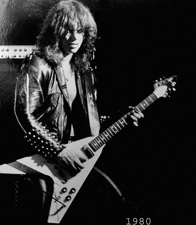 Live in 85